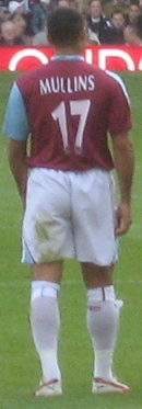 Hayden Mullins. Image cropped from original at flickr.